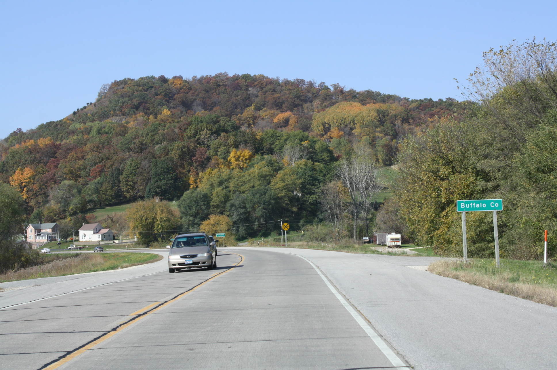 The sign for Buffalo County, Wisconsin on Wisconsin Highway 54.